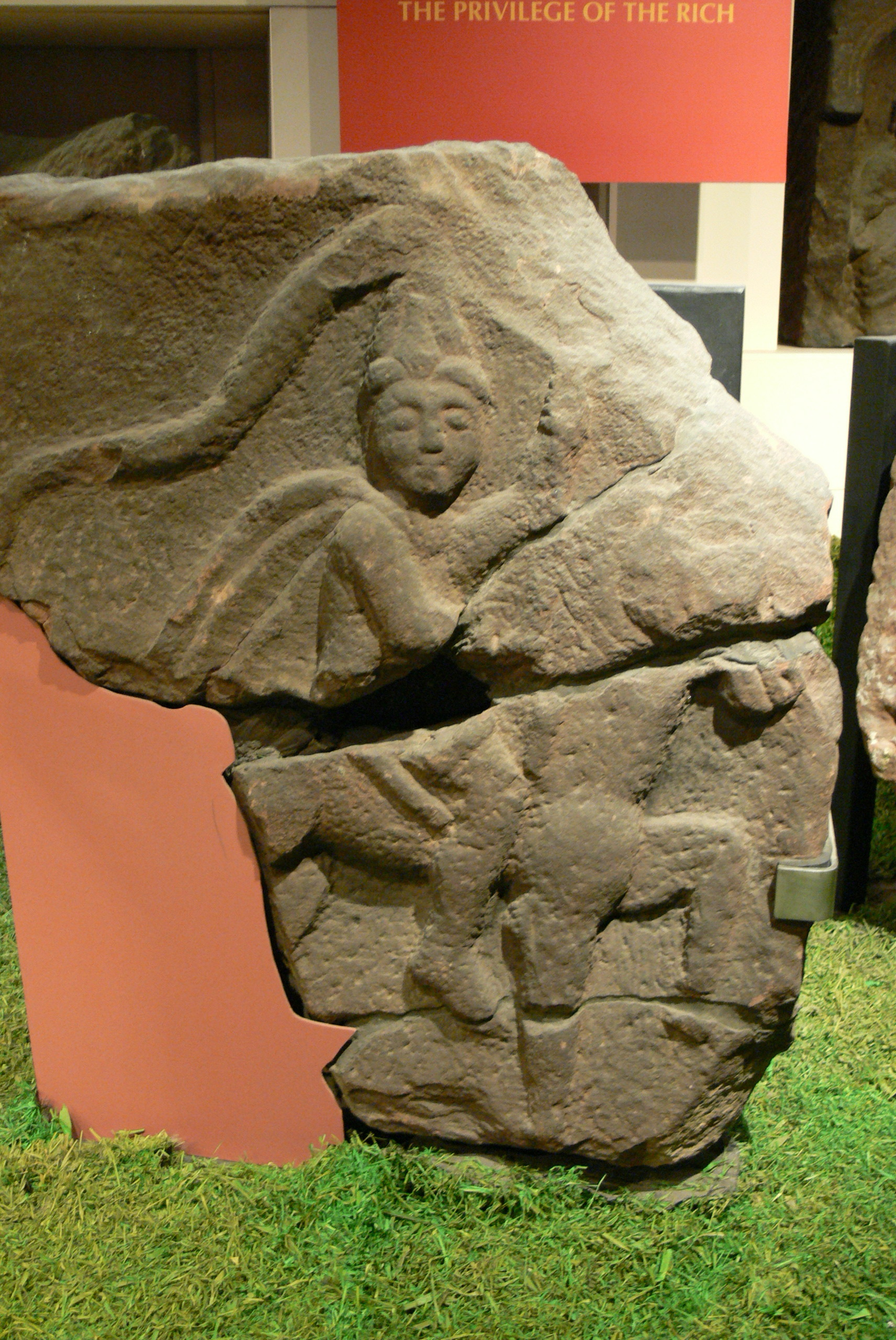 Chester (England). Grosvenor Museum: Tombstone from Deva Victrix of a Dacian or Sarmatian cavalry man fighting in the Roman army in Britain. The rider is holding a Dacian Draco. Probably from cohors I Aelia Dacorum.